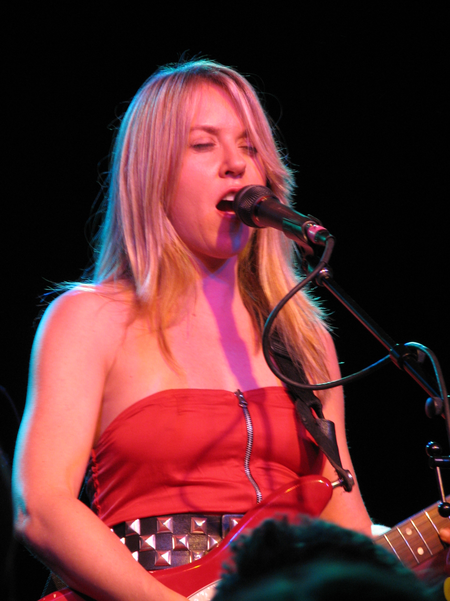 Seattle, WA -- Exile in Guyville 15th Anniv Release at Showbox